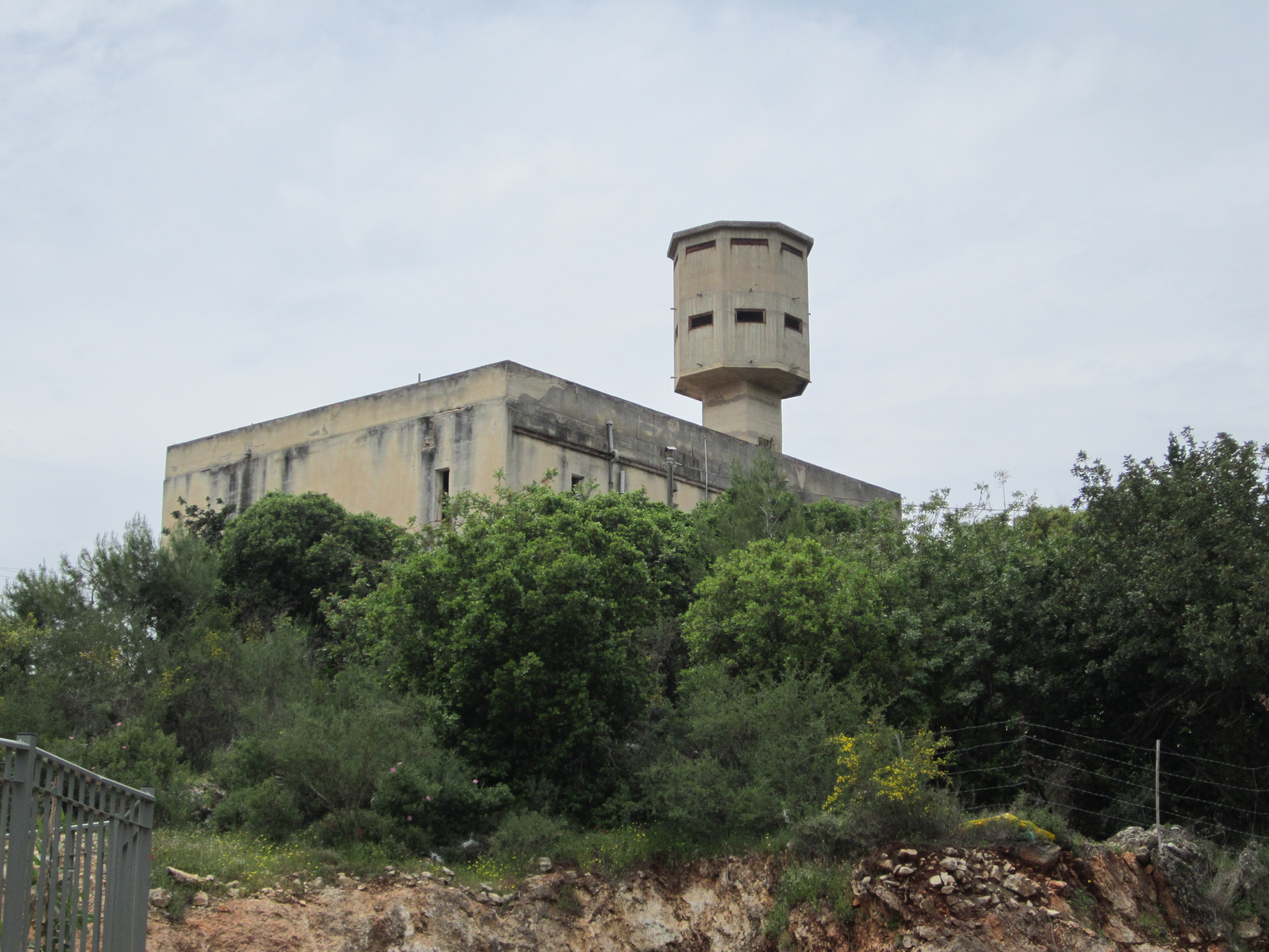 teggart fort nir kibbutz parod and moshav sheffer